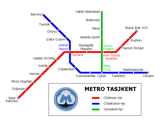 Map of the Tashkent metro; Uzbek station names in Latin script, Dutch legend